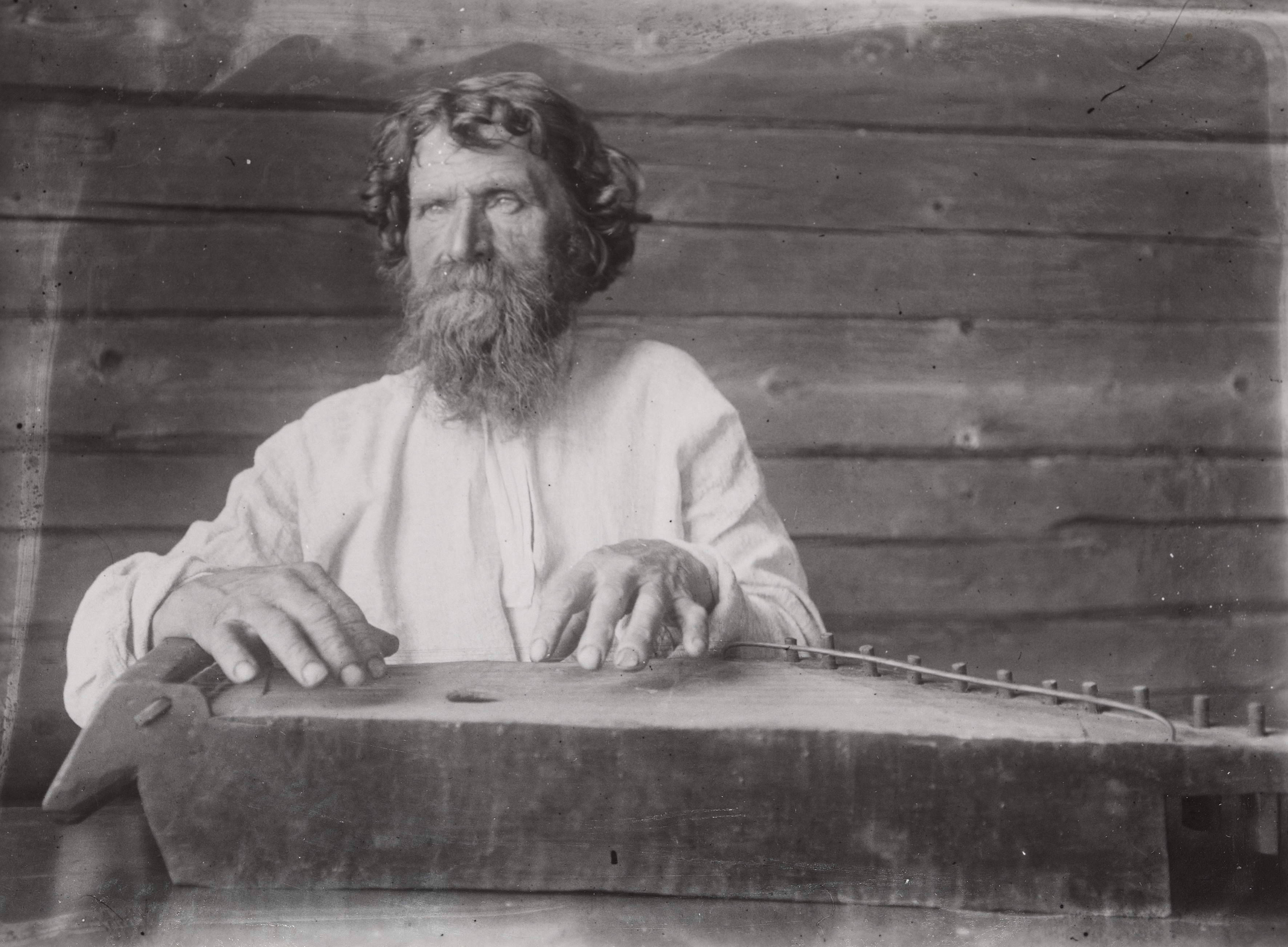 Photograph of the Finnish kantele player and rune singer Timo Lipitsä (1857–1950).